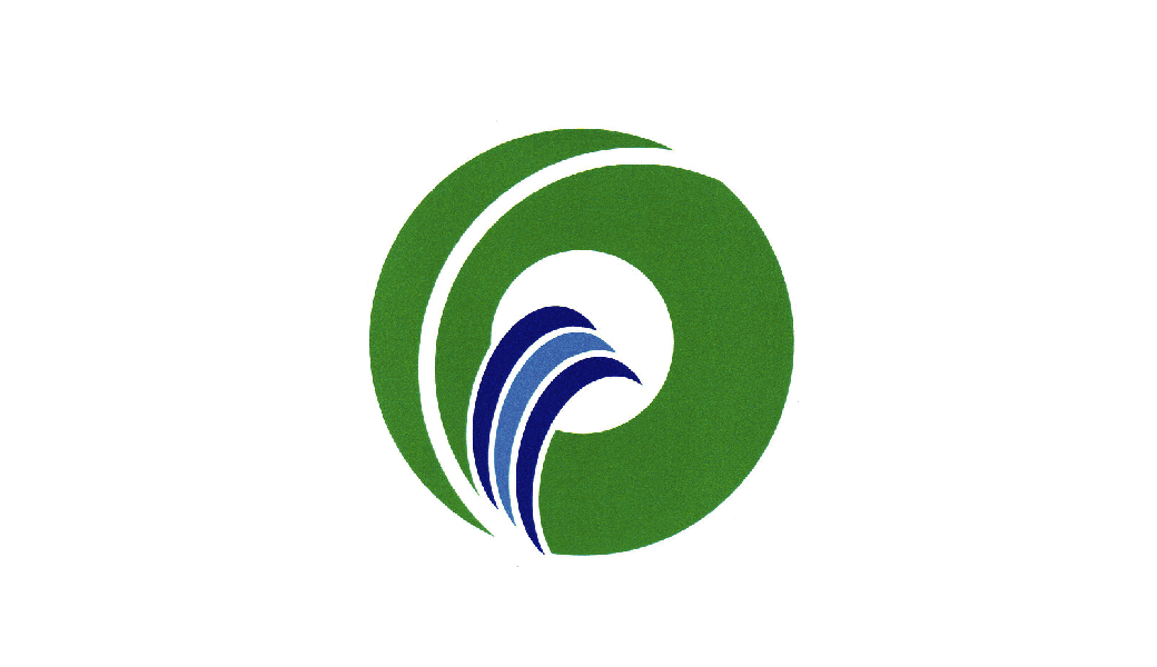 Flag of Odai Mie